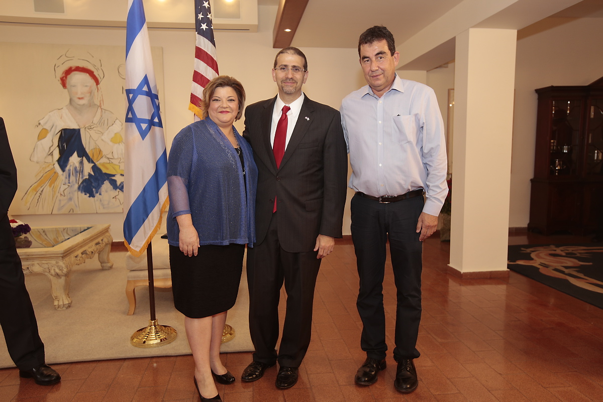 July 4th 2015